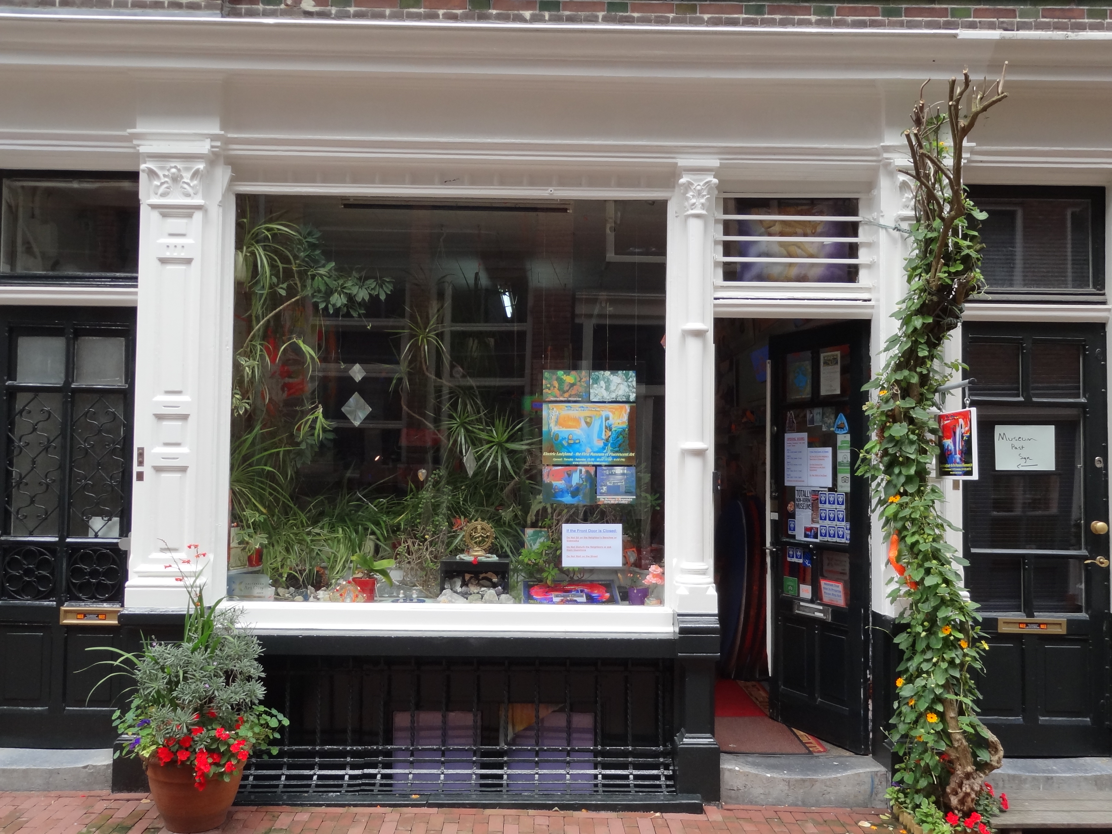 Electric Ladyland Museum entrance